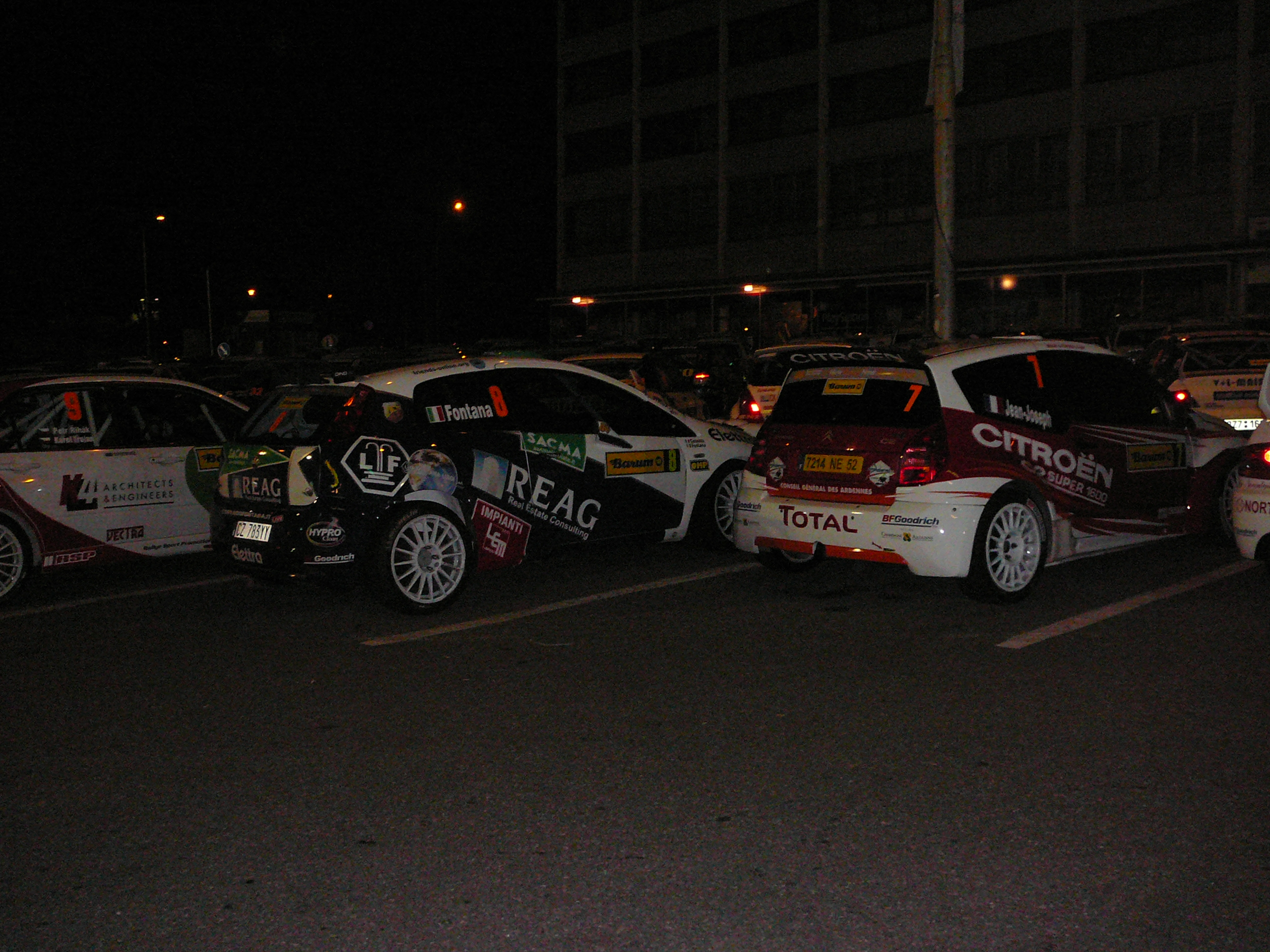 Cars from Barum Rally in Zlín in night.